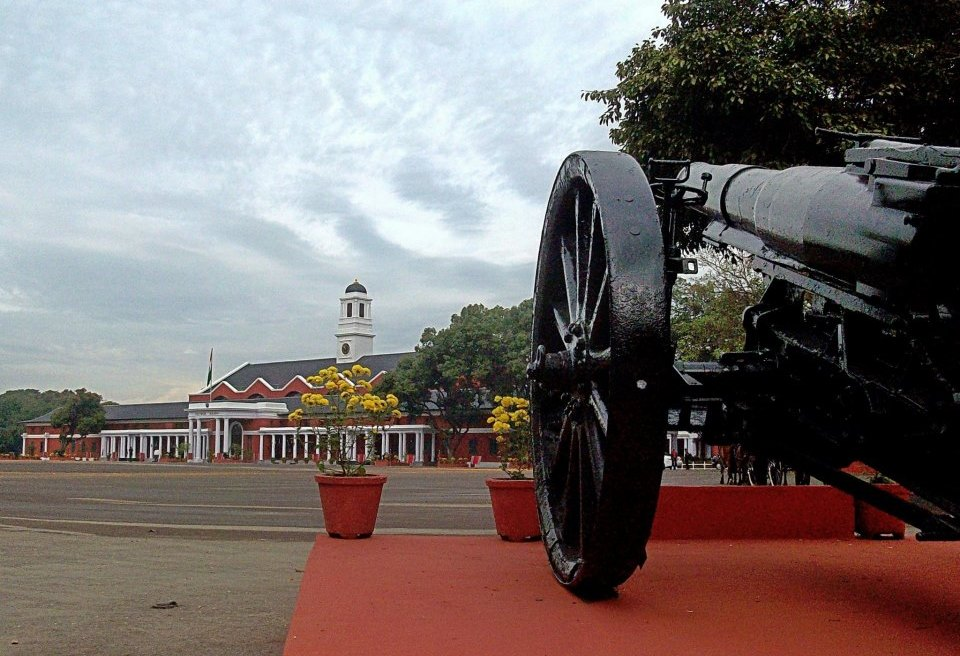 Indian Military Academy